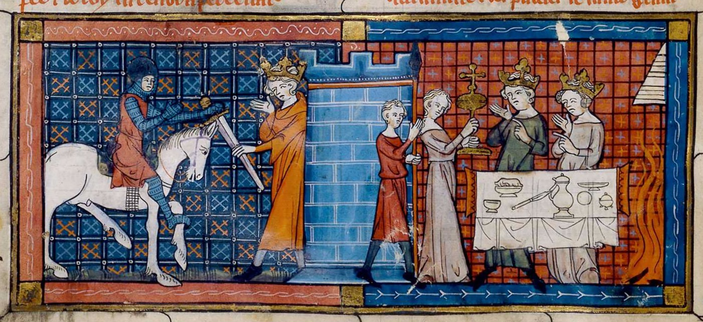 Perceval arrives at the Grail Castle, to be greeted by the Fisher King. From a 1330 manuscript of Perceval ou Le Conte du Graal by Chrétien de Troyes, BnF Français 12577, fol. 18v.